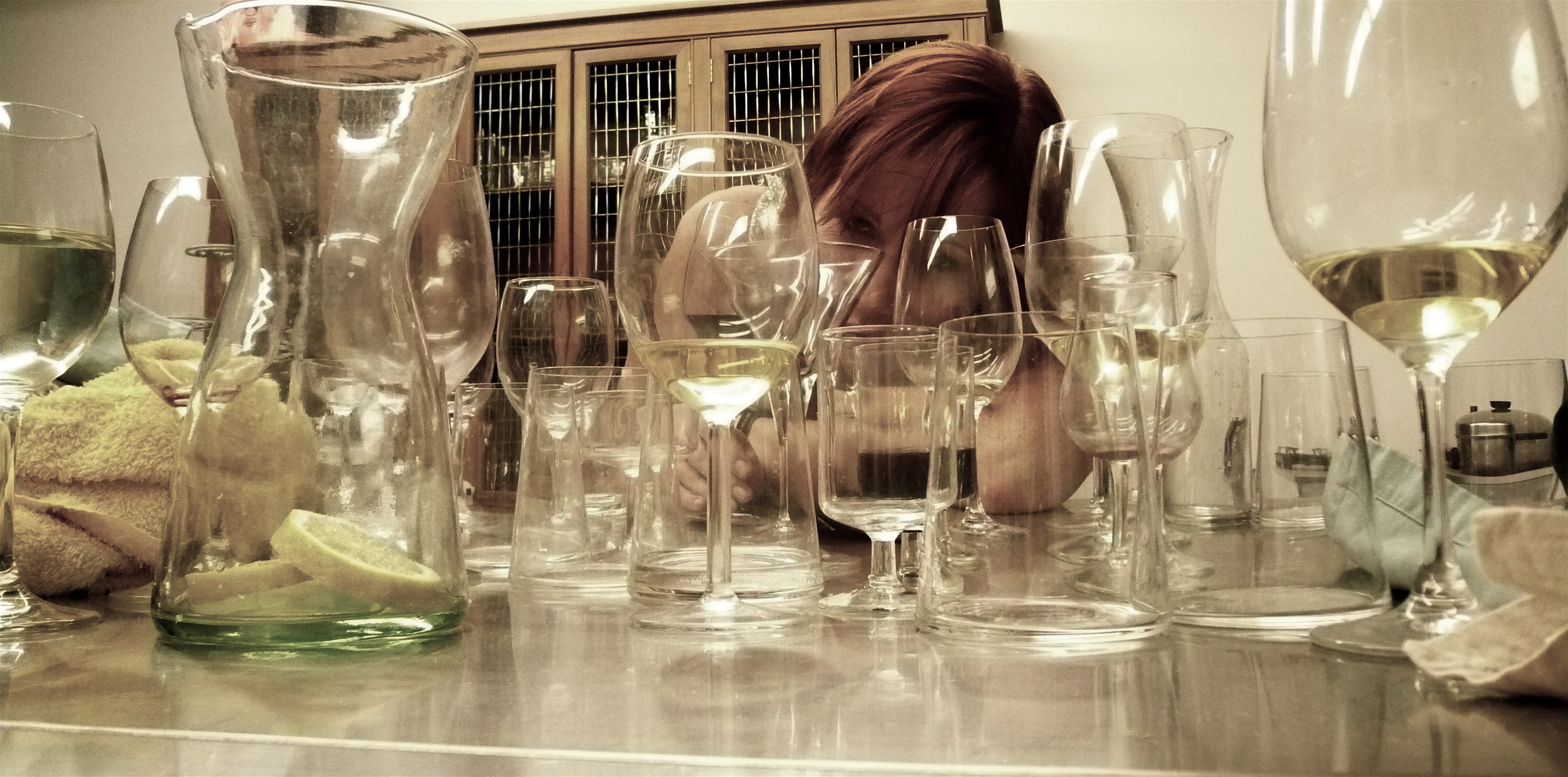 it was impressive to watch tana practice for her competitive drinking tournament next weekend.